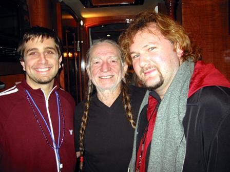 Thaler with Willie Nelson performing at the 2005 Superbowl in Jacksonville, Florida